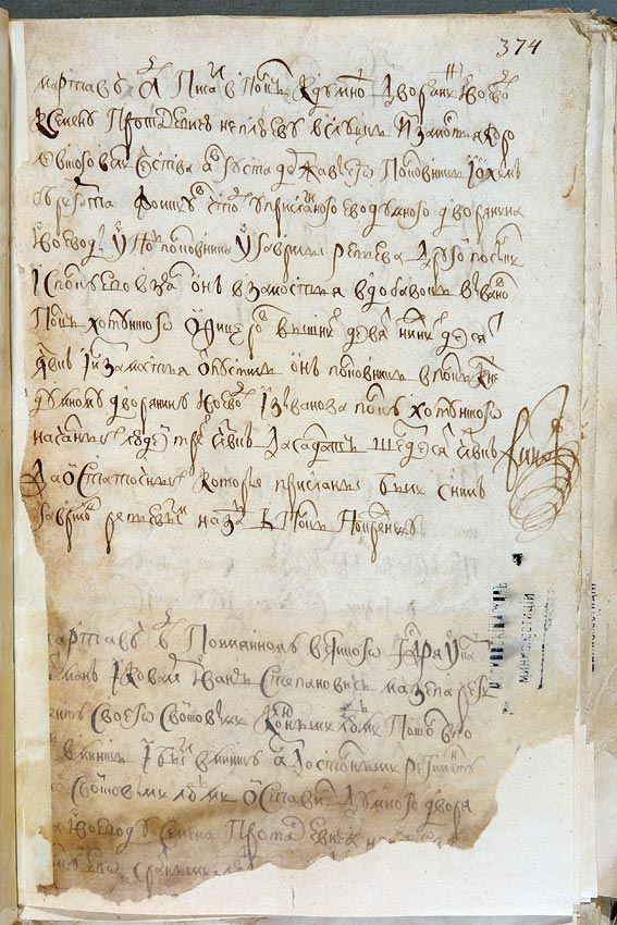 Semjon Nepljujevs report to Tsar Peter I of Russia, after the battle of Kletsk 1706